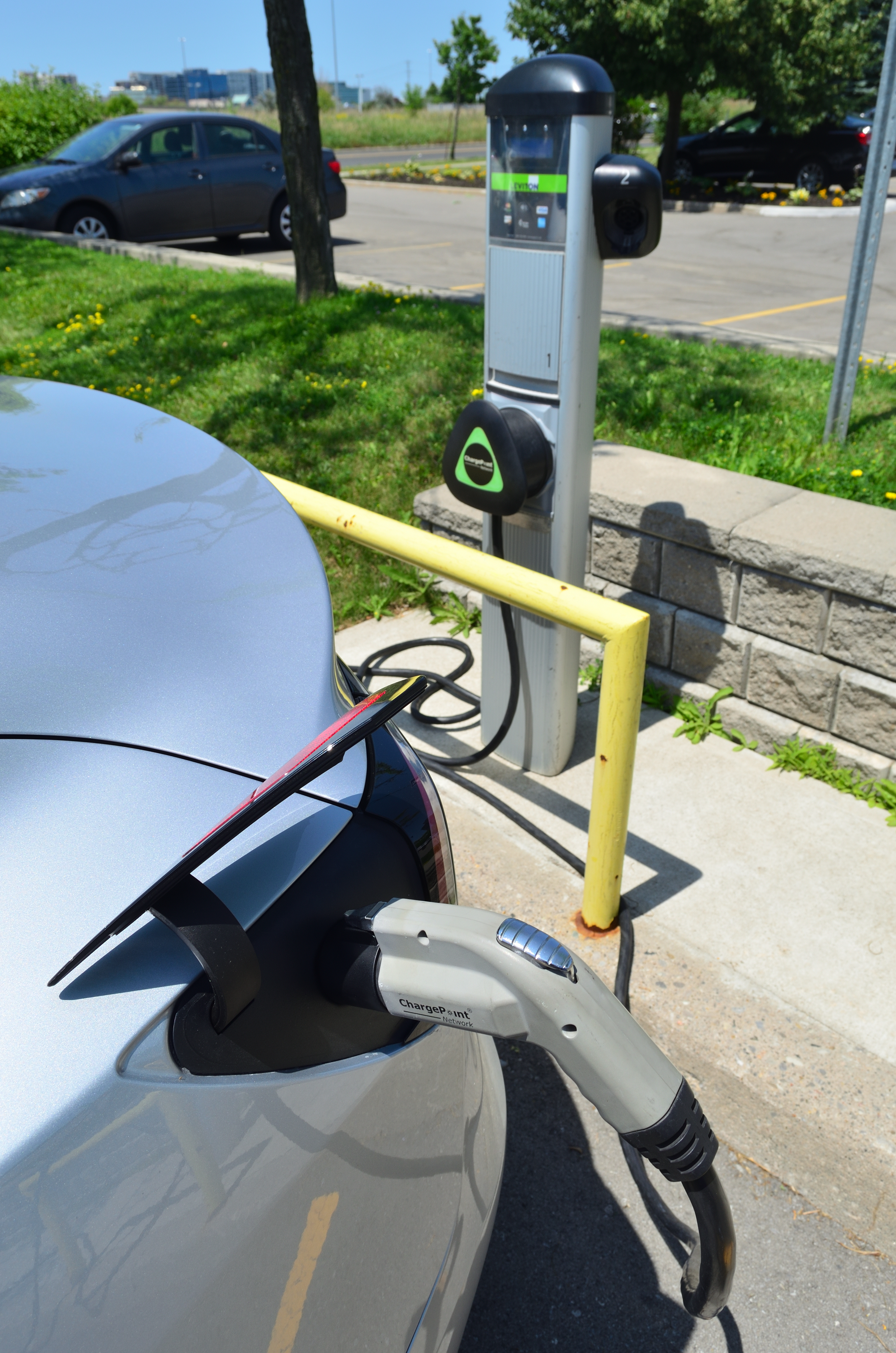 A Tesla Model 3 at ChargePoint station